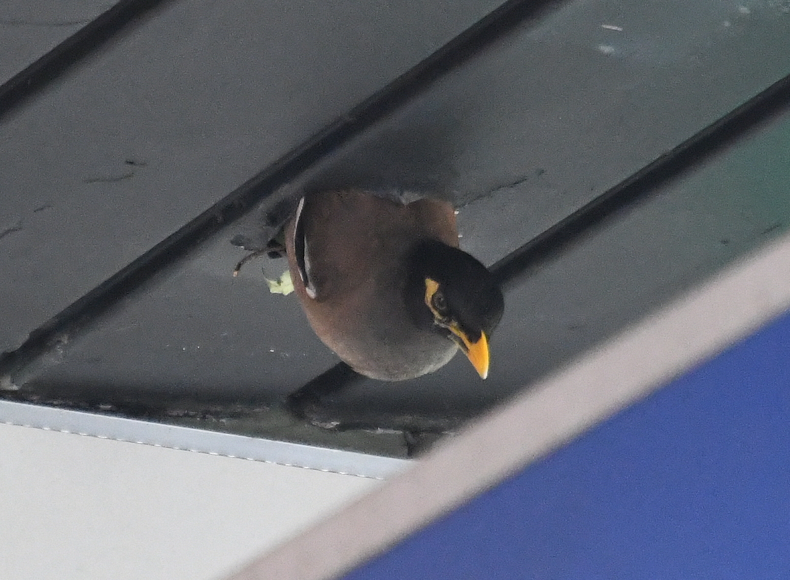 Mynah nesting in shop awning, Chatswood, Sydney